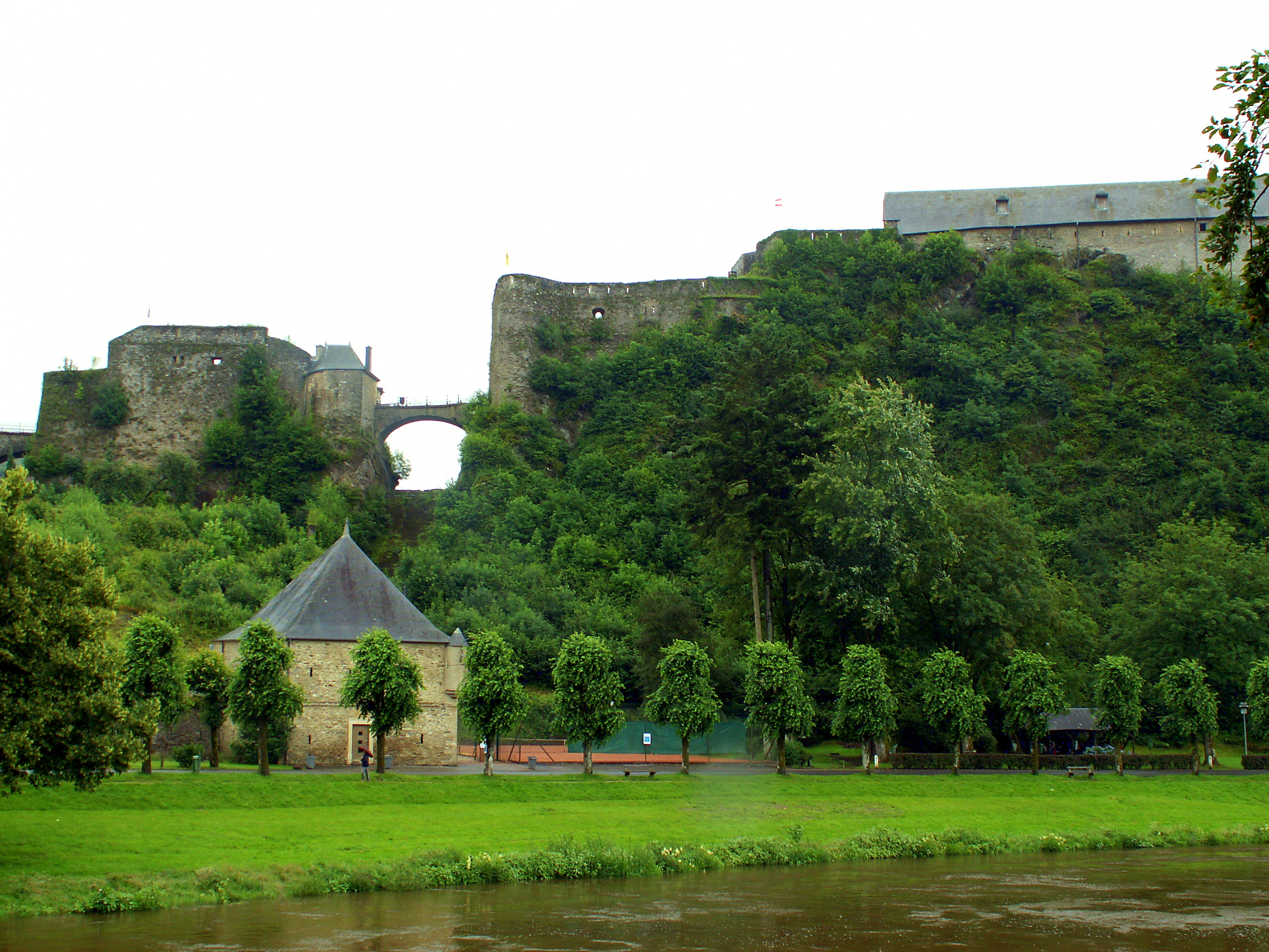 Bouillon (Belgium): view of the castle from the Semois.